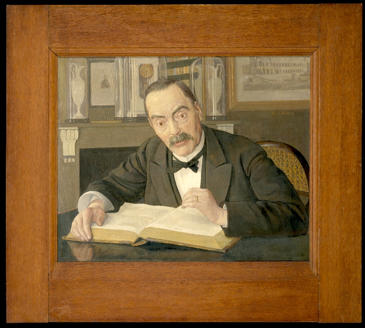 Samuel Adrianus Naber (1828-1913)